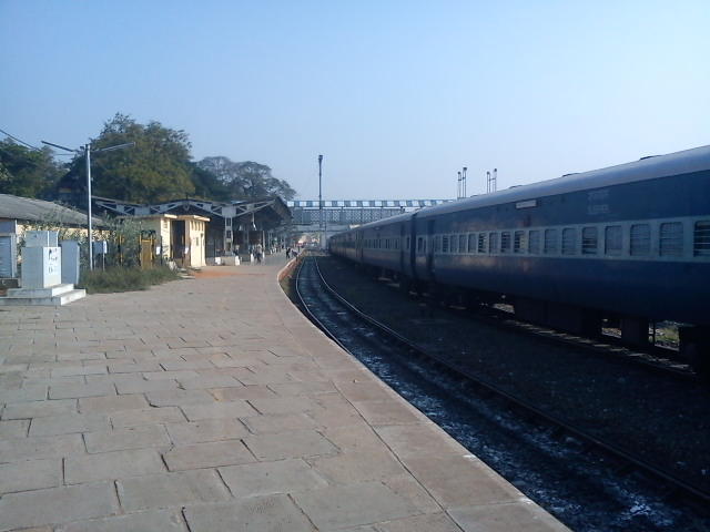 MADURAI 8TH PLATFORM